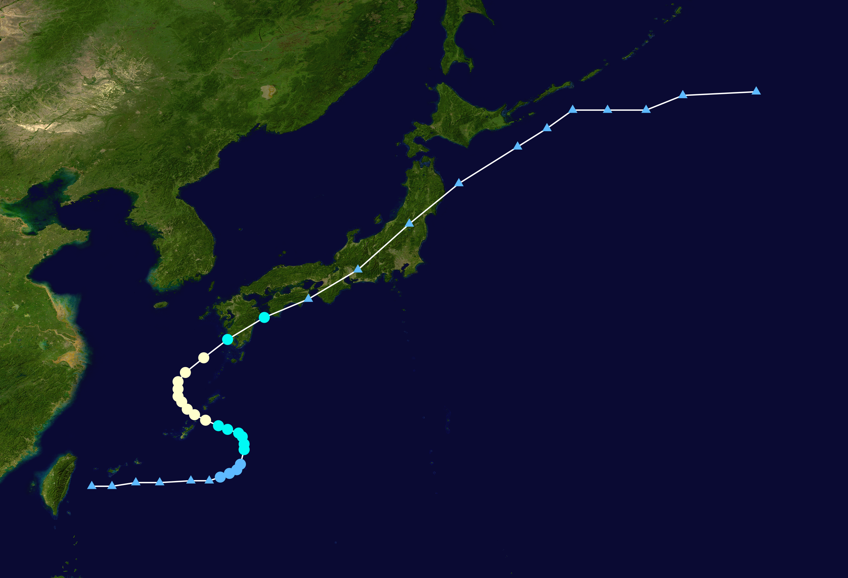 Typhoon Shirley 1974 track. Uses the color scheme from the Saffir-Simpson Hurricane Scale.